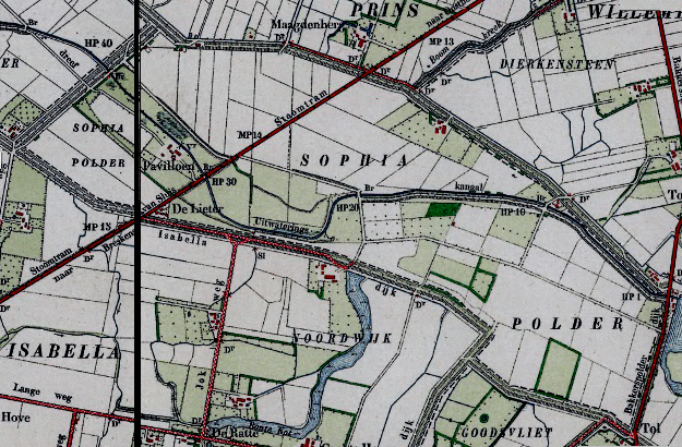 Sophiapolder